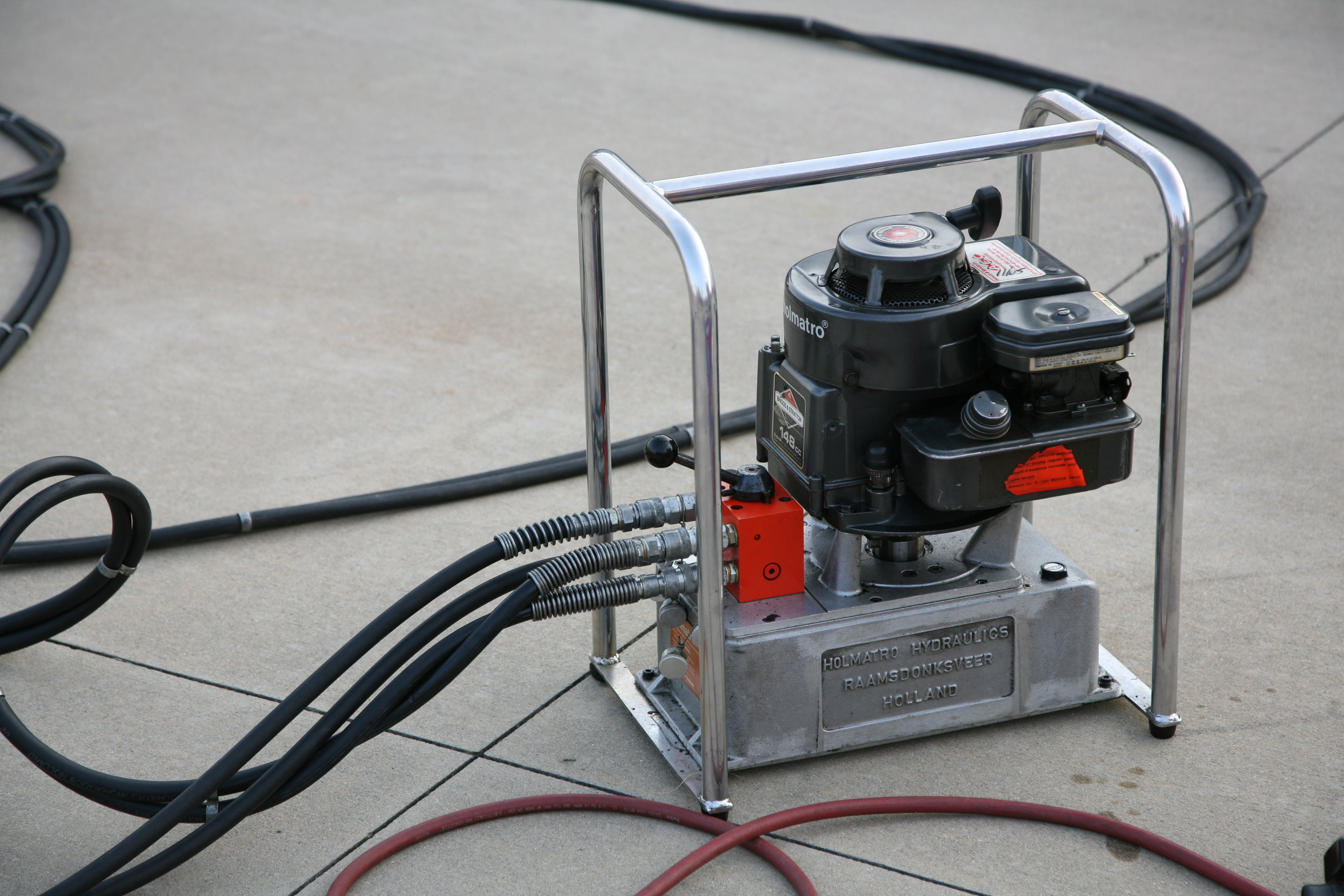 Hydraulic pump for a set of hydraulic rescue tools at an extrication excercise in Oakwood, Illinois